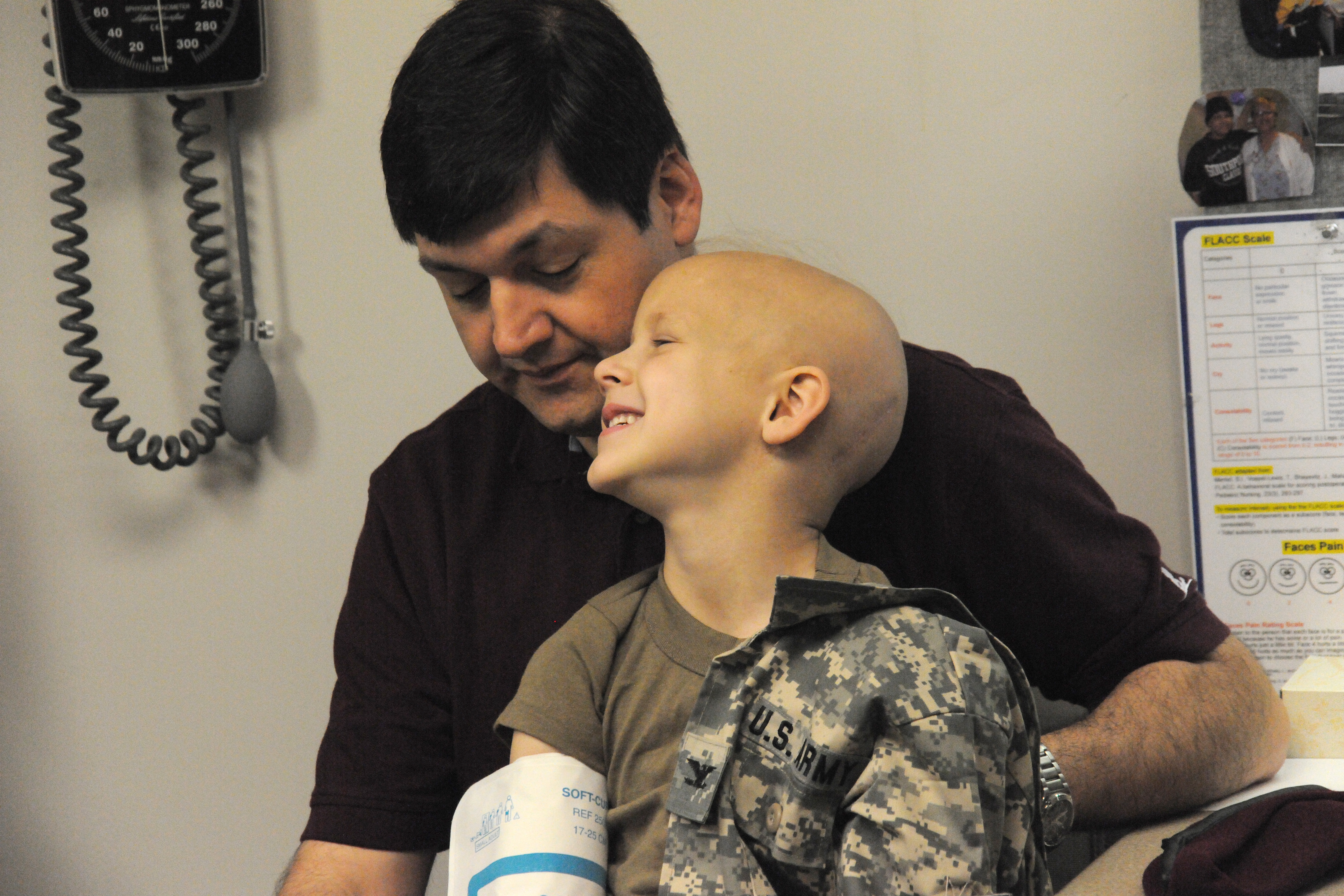 Evan sits on his dad's lap to get his blood pressure checked during a routine checkup.